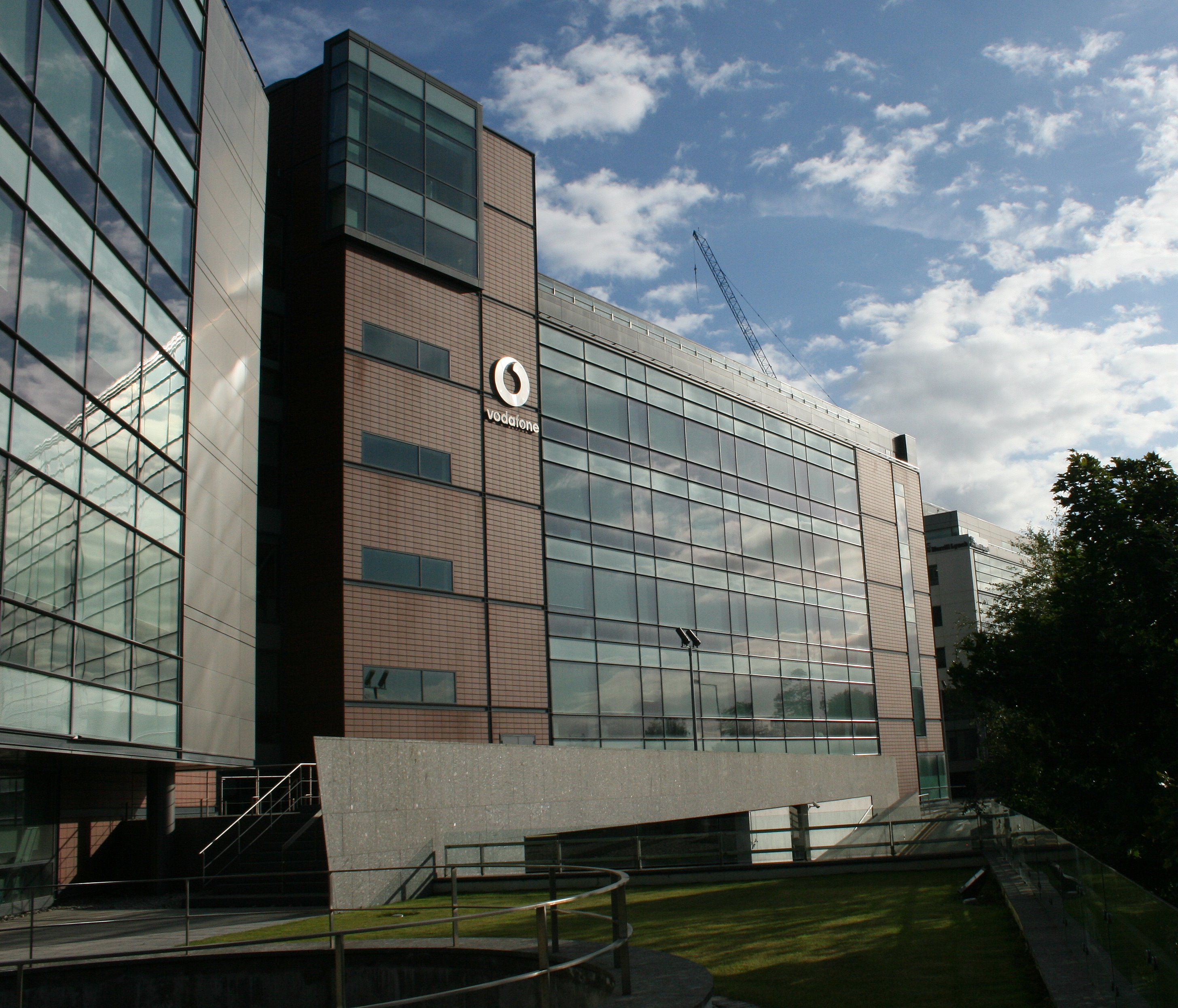 Vodafone HQ in Ireland at Central Park, Leopardstown Rd.